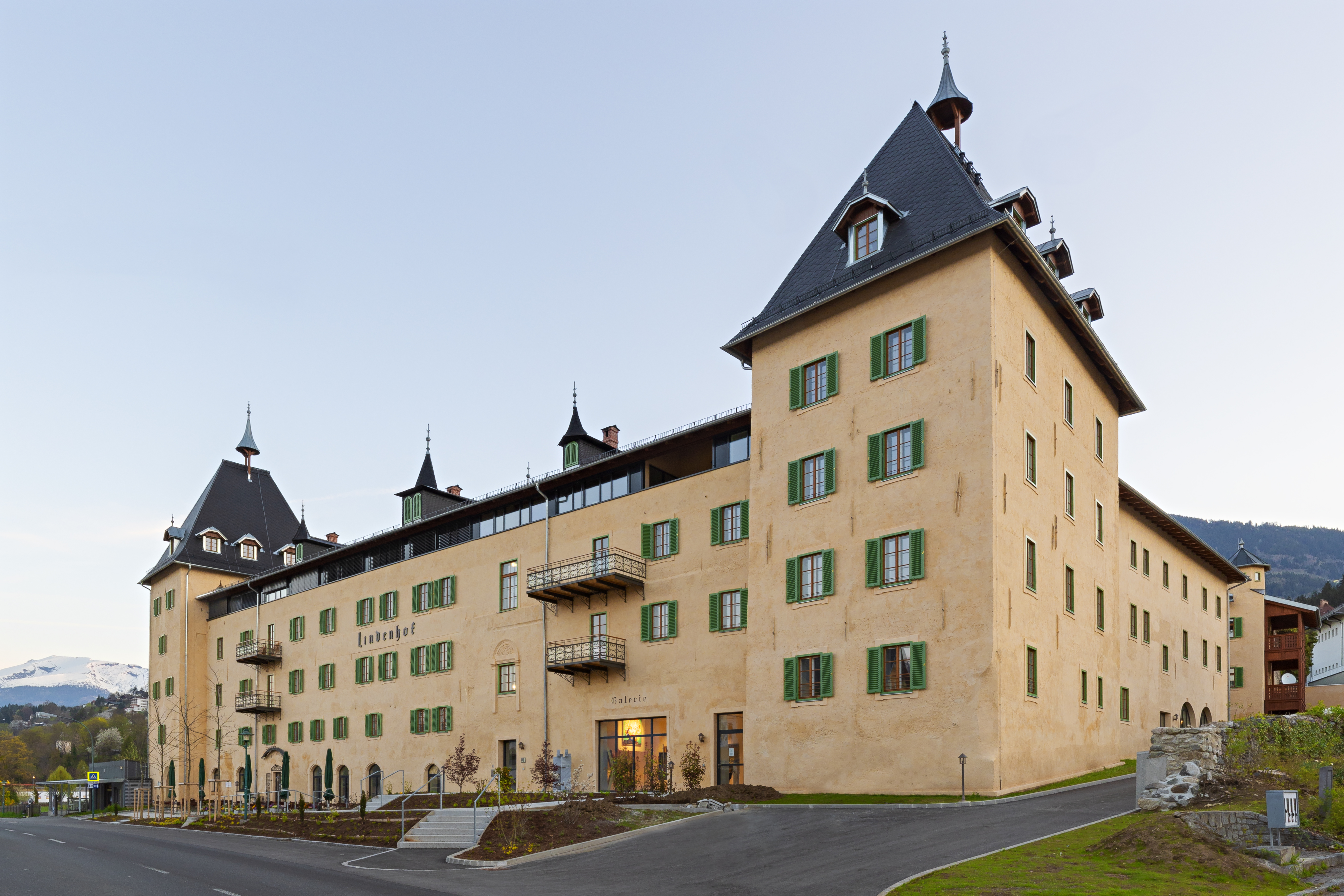 Panorama foto of the "Lindenhof Millstatt" as part of the former Millstatt abbey, after the renovation 2015-2018